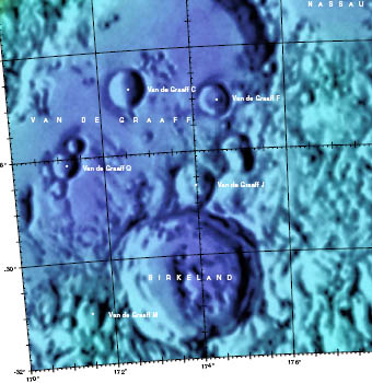 Color-coded LAC 104 from the USGS Digital Atlas